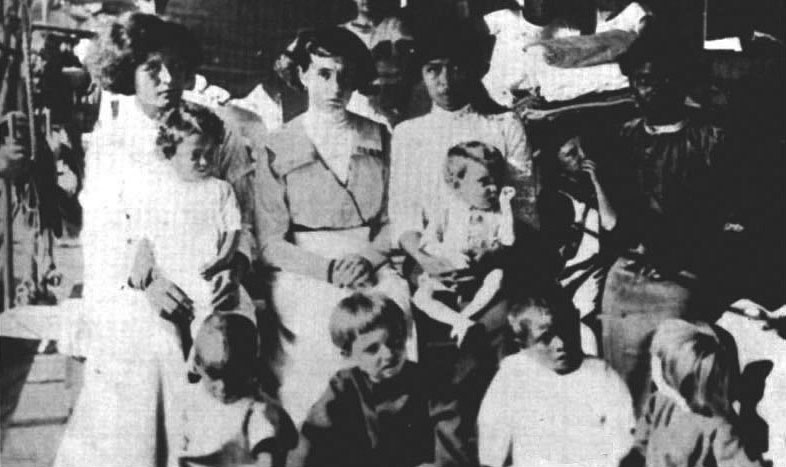 The 11 Clipperton survivors: Tirsa Rendon, Alicia Rovira Arnaud, Altagracia Quiroz, teenager Rosalía, and 7 children.